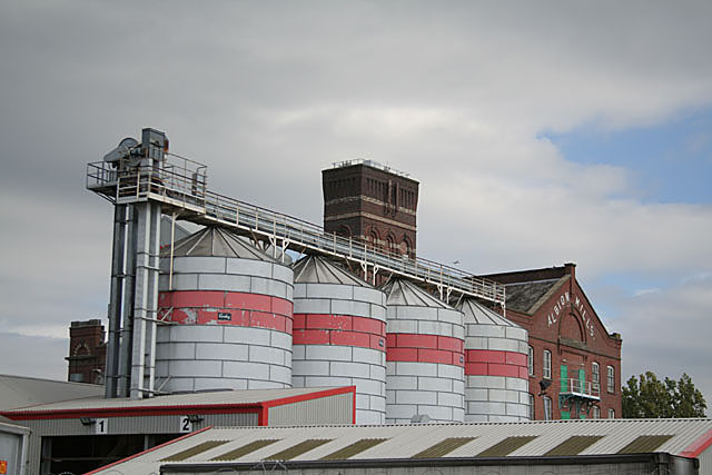 Albion Mills, Stockport Founded in 1820 and enlarged in 1893, the Albion Mills are still in use for flour milling by Nelstrops. The unusual location close to the centre of Stockport results from the development of the mills alongside the terminal basin of the Stockport branch of the Ashton Canal. Little trace of the latter now remains.